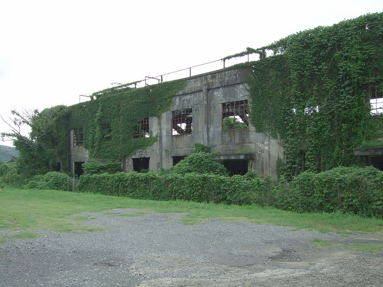 The ruin of Kawaminami Dock, Imari, Saga, Japan